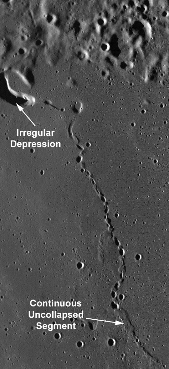 Sinuous chain of collapse pits transitioning into a continuous uncollapsed segment of a lunar lava tube. The chain is about 50 km long and is located at about 34.5°N, 43.5°W at the transition from Mare Imbrium to Oceanus Procellarum, northwest from the crater Gruithuisen.